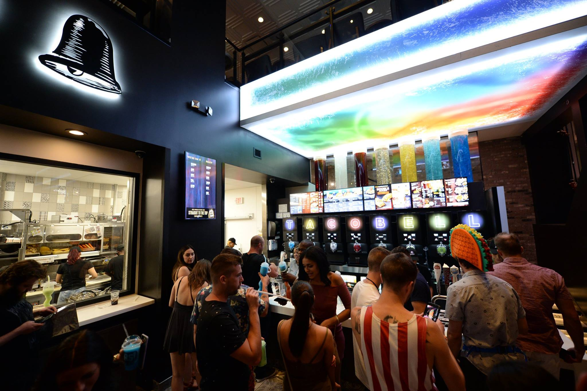 The downstairs interior of the Taco Bell Cantina flagship store in Las Vegas, NV. License requires attribution to Steven Keys and